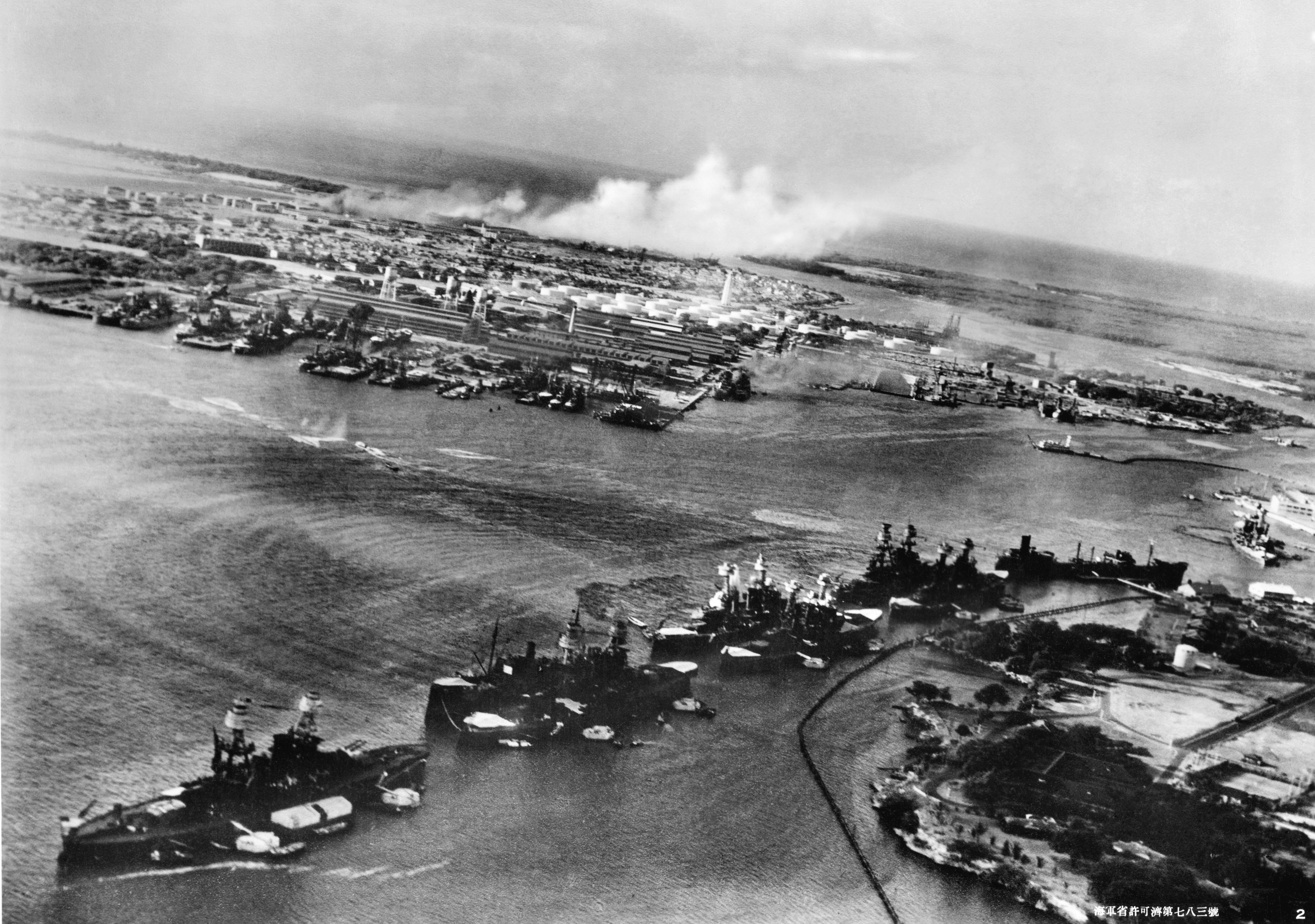 Pearl Harbor Attack, 7 December 1941: Torpedo planes attack "Battleship Row" at about 0800 on 7 December, seen from a Japanese aircraft. Ships are, from lower left to right: USS Nevada (BB-36) with flag raised at stern; USS Arizona (BB-39) with USS Vestal (AR-4) outboard; USS Tennessee (BB-43) with USS West Virginia (BB-48) outboard; USS Maryland (BB-46) with USS Oklahoma (BB-37) outboard; USS Neosho (AO-23) and USS California (BB-44). West Virginia, Oklahoma and California have been torpedoed, as marked by ripples and spreading oil, and the first two are listing to port. Torpedo drop splashes and running tracks are visible at left and center. White smoke in the distance is from Hickam Field. Grey smoke in the center middle distance is from the torpedoed USS Helena (CL-50), at the Navy Yard's 1010 dock. Japanese writing in lower right states that the image was reproduced by authorization of the Navy Ministry. Original caption: "Photo # NH 50931 Japanese torpedo attack on "Battleship Row", Pearl Harbor, 7 Dec. 1941" — removed caption